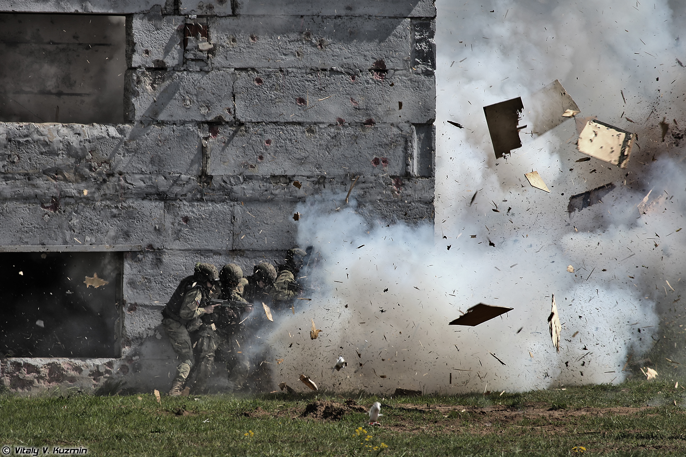 Военнослужащие 604-го ЦСН Витязь Росгвардии штурмуют здание (Operators from 604th Special Purpose Center Vityaz of National Guard Troops assault a building with suspects)